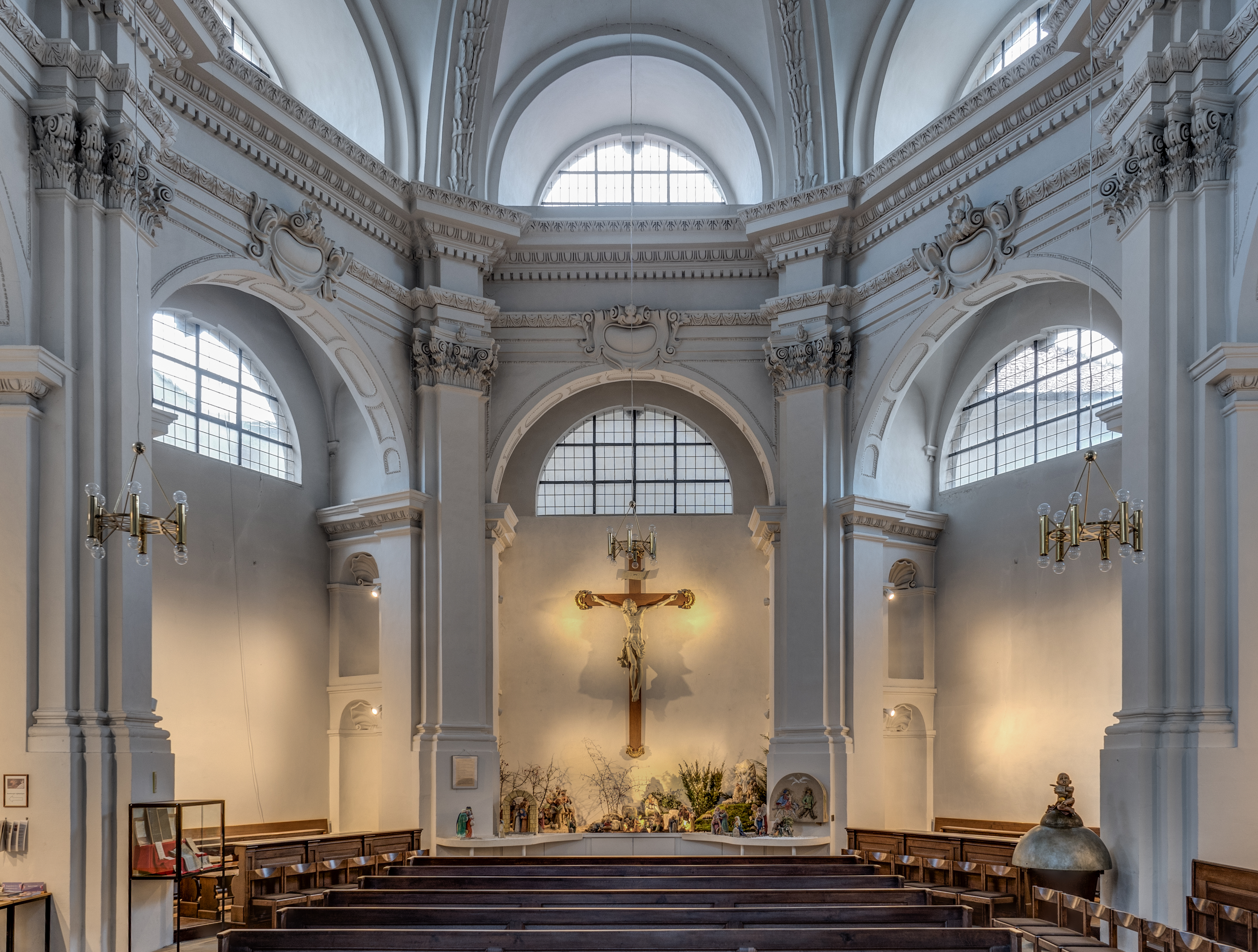 Crucifix above the Nativity scene in the transept of St. Stephen in Bamberg